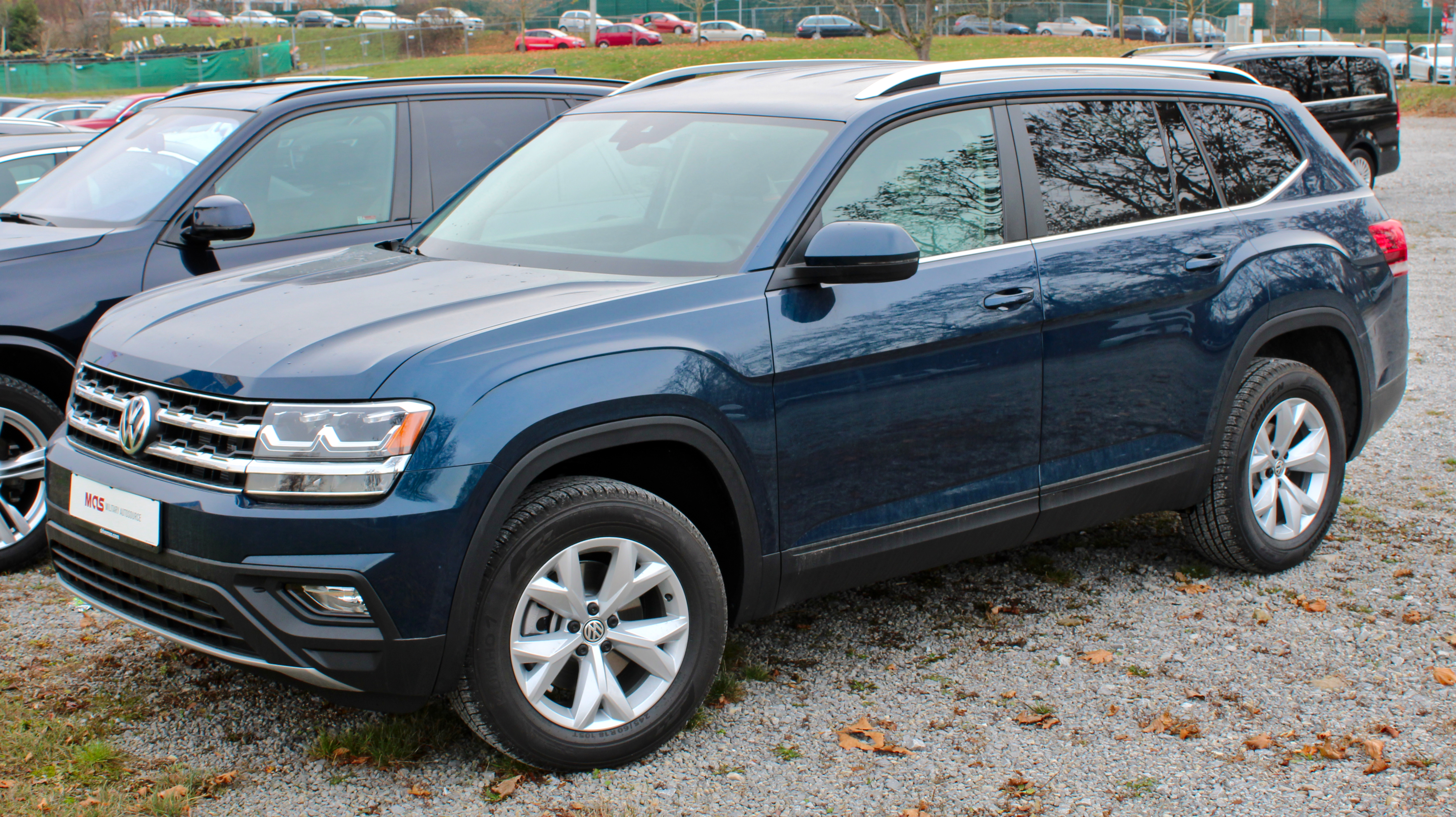 Volkswagen Atlas SE in Stuttgart-Vaihingen